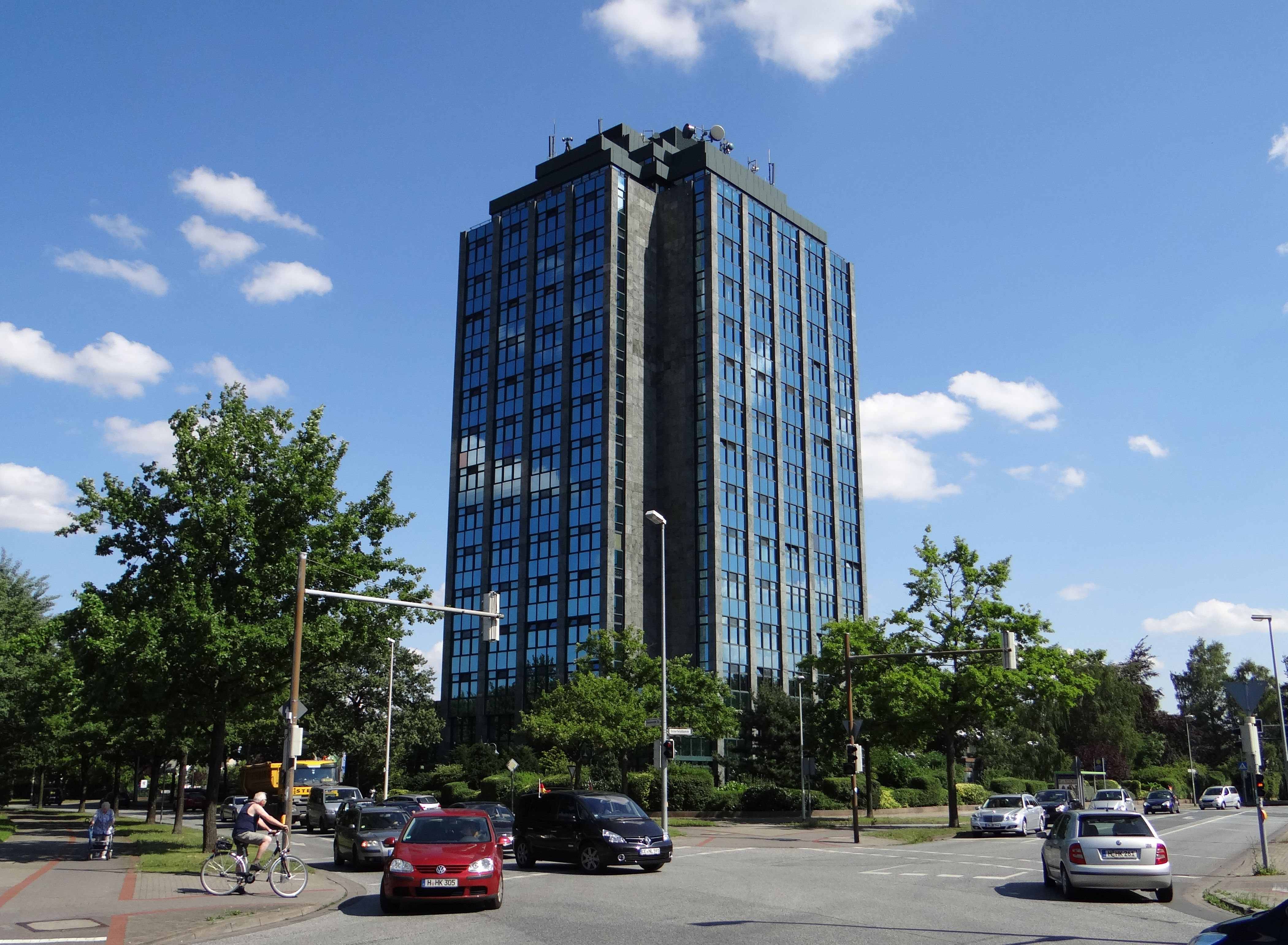 Office building in Hannover, Germany.